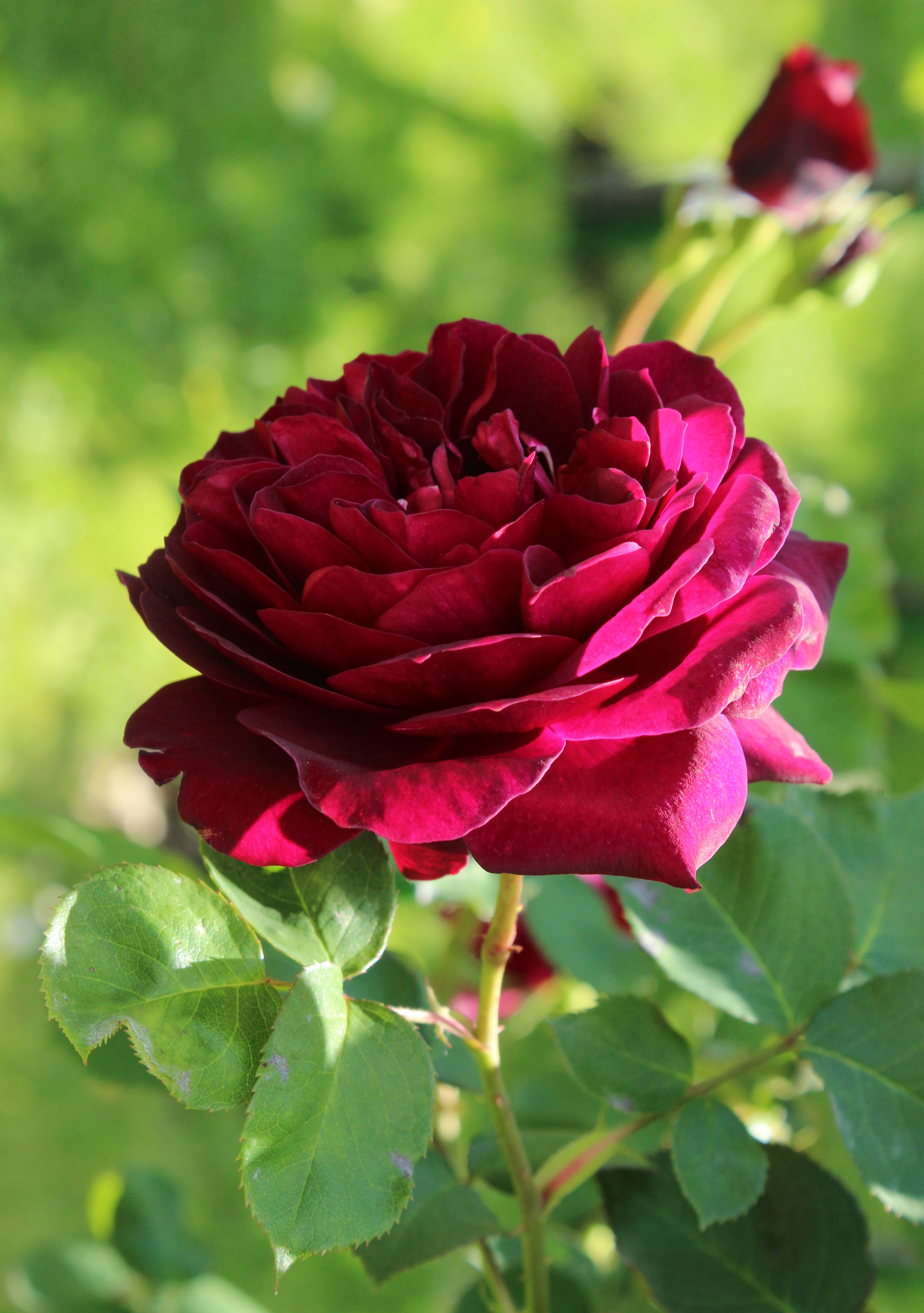 Rosa 'Tradescant' in the Volksgarten in Vienna, Austria. Identified by sign.